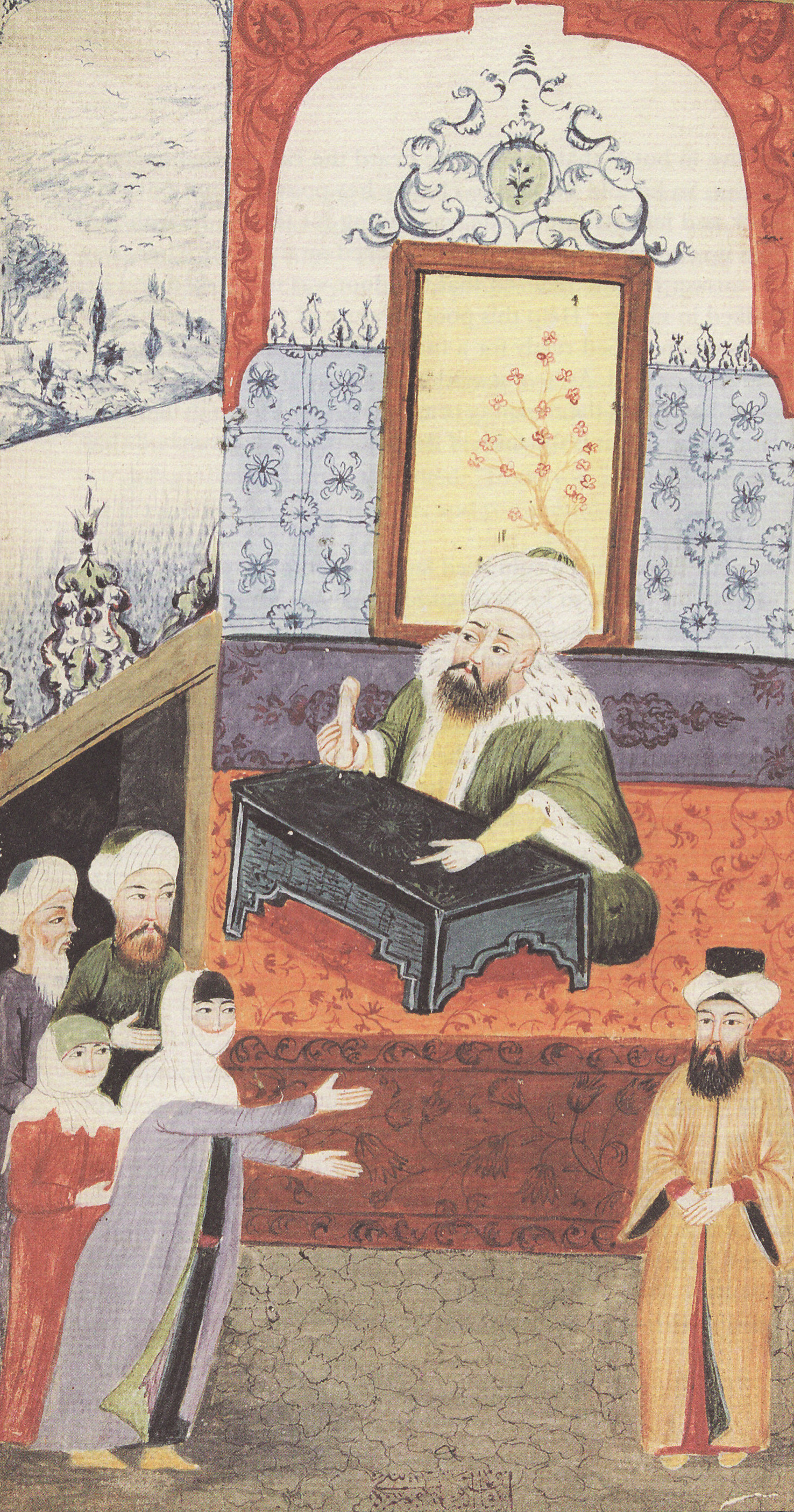 "An unhappy wife is complaining to the Kaddi about her husband's impotence. Her evidence is a zibik (dildo)"